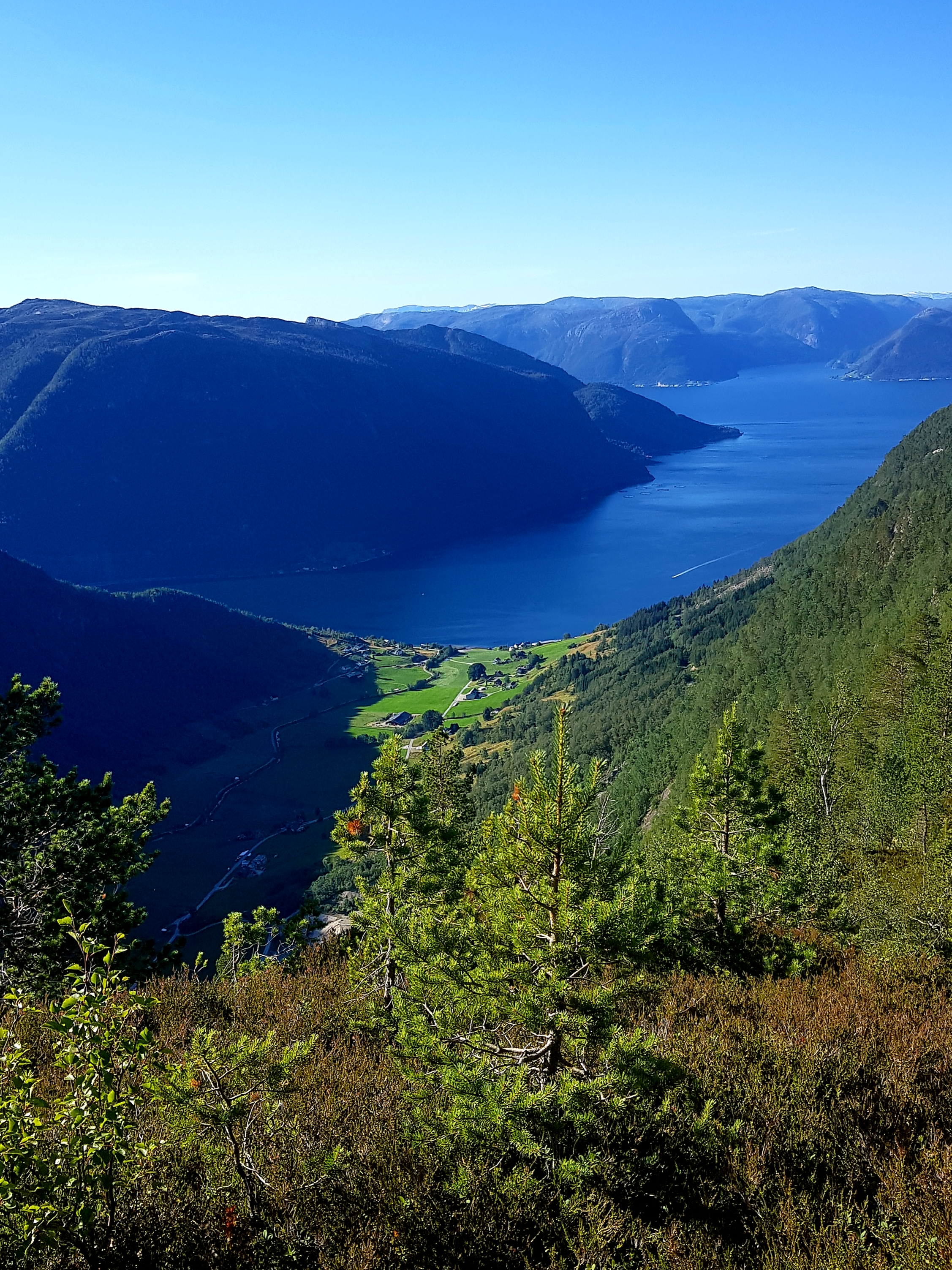 Photo by Silje Bjordal